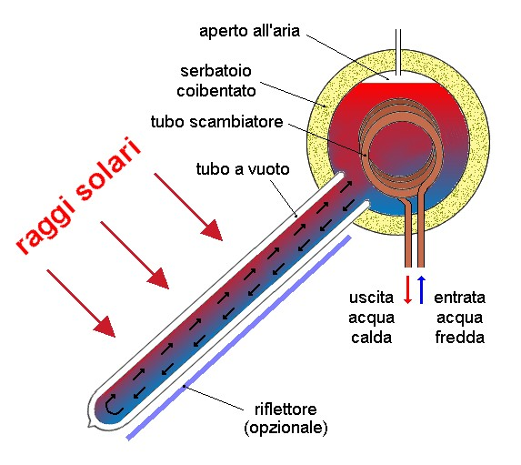 Solar panel with vacuum tube and heat exchanger